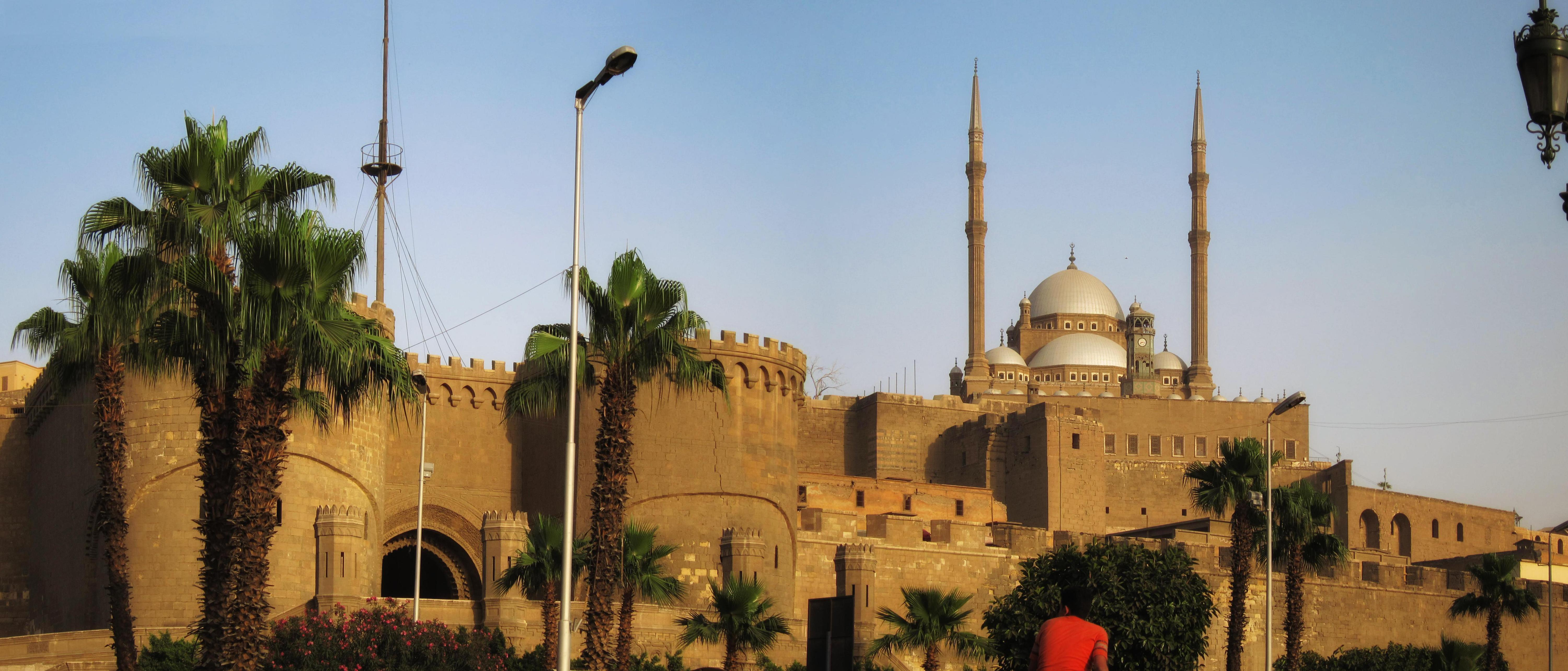 The Saladin Citadel of Cairo (Arabic: قلعة صلاح الدين Qalaʿat Salāḥ ad-Dīn) is a fortification in Cairo, Egypt. The location, part of the Muqattam hill near the center of Cairo, was once famous for its fresh breeze and grand views of the city, and was fortified by the Ayyubid ruler Salah al-Din (Saladin) between 1176 and 1183 AD, to protect it from the Crusaders[1]. Source.